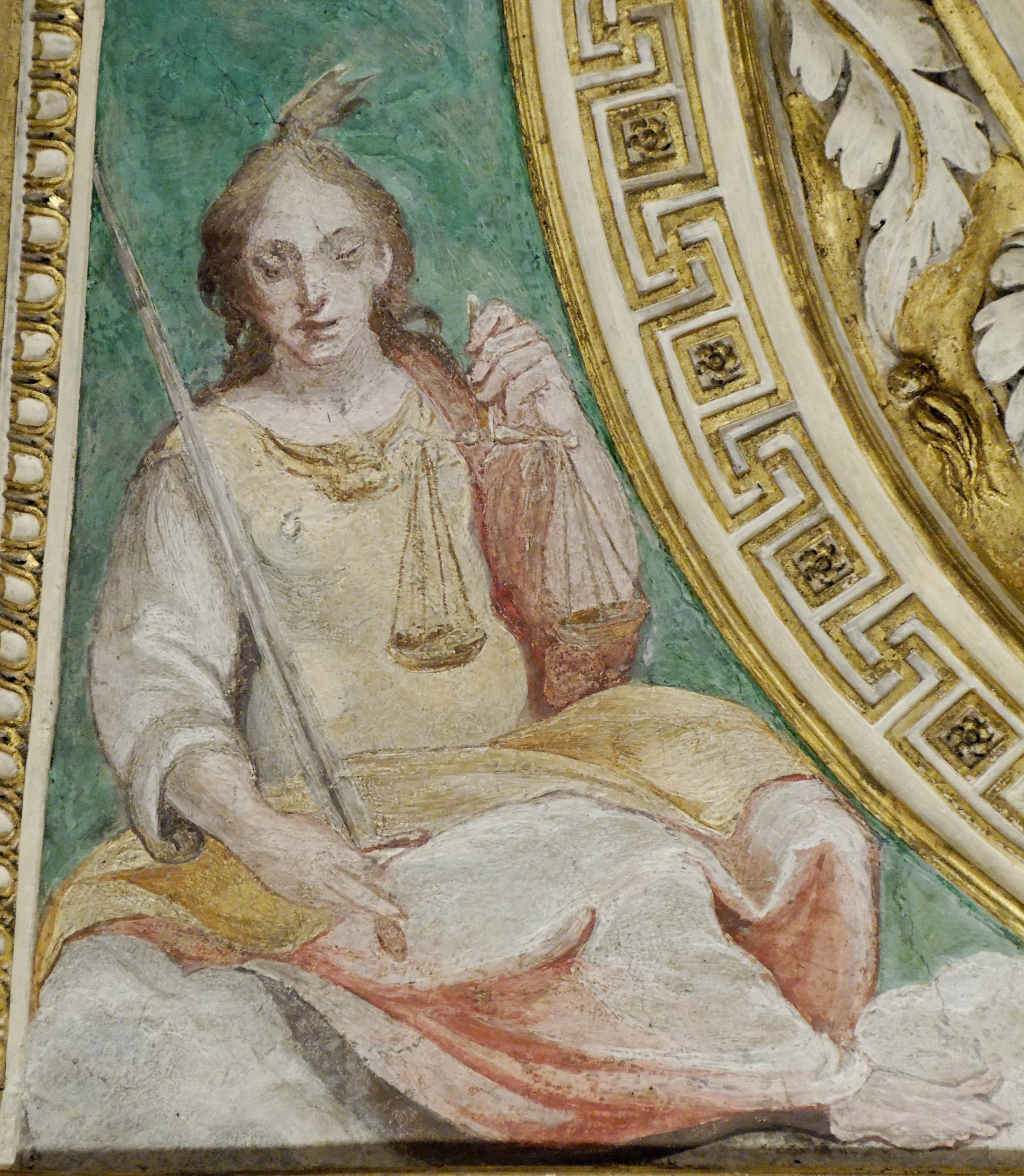 Justice, one of the four theological virtues, by Vitruvio Alberi, 1589-1590. Fresco, corner of the vault, studiolo of the Madonna of Mercy, Palazzo Altemps, Rome.